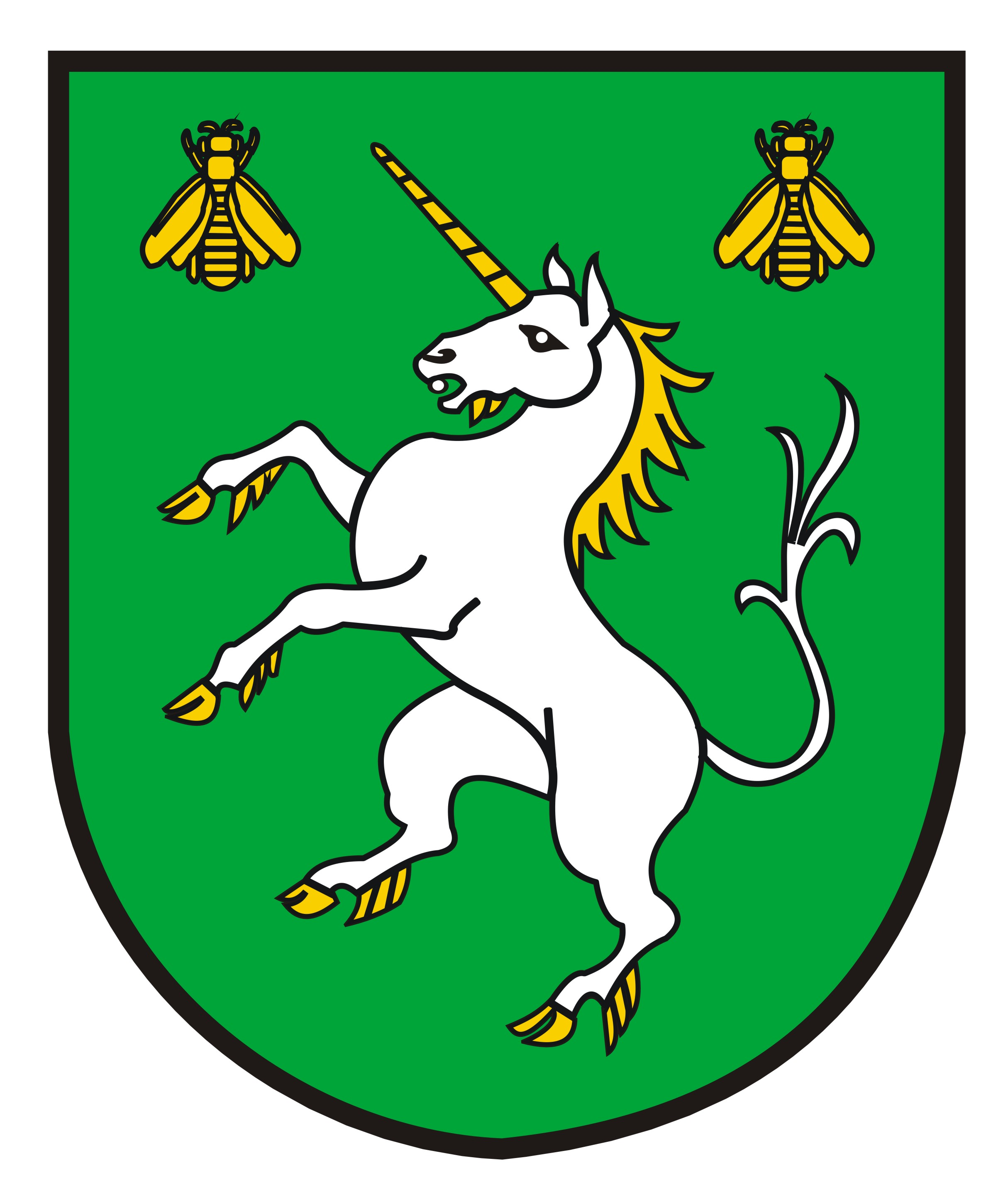 Official coat of arms of Jednorożec Commune in Poland provided by the Jednorożec Commune Office